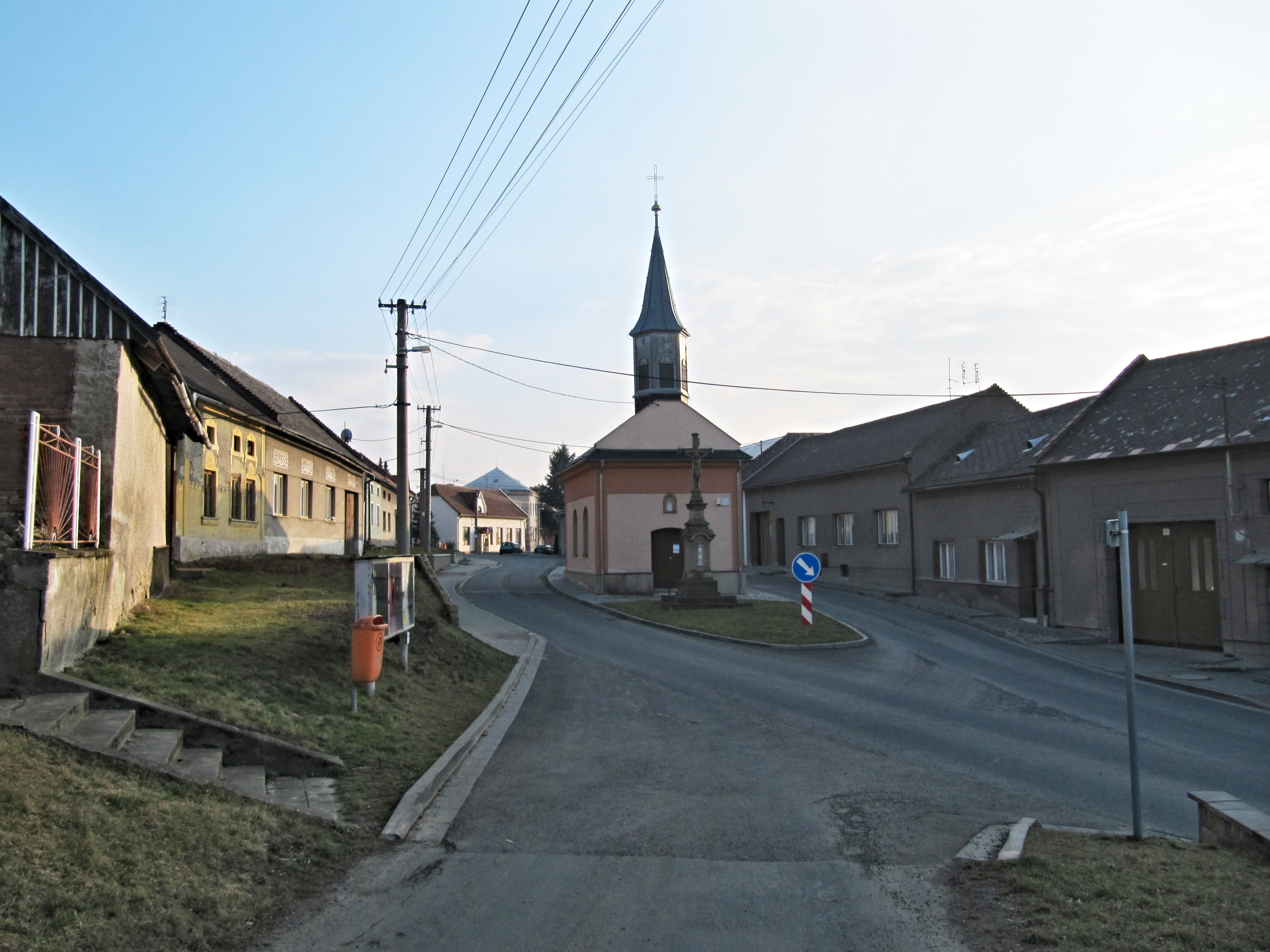 Dřínov, Kroměříž District, Czech Republic. Chapel.